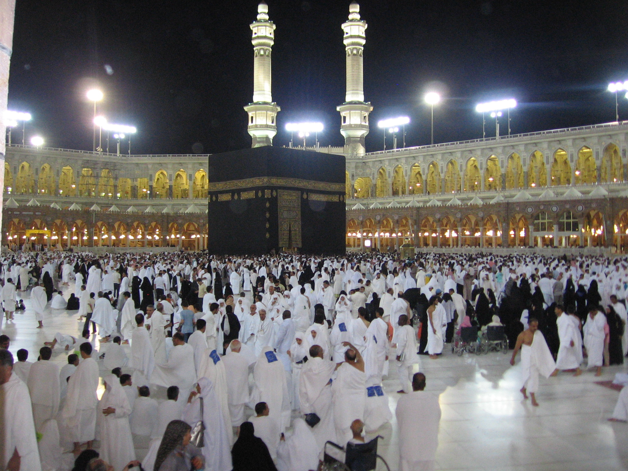 Masjid al-Haram in mecca Saudi Arabia